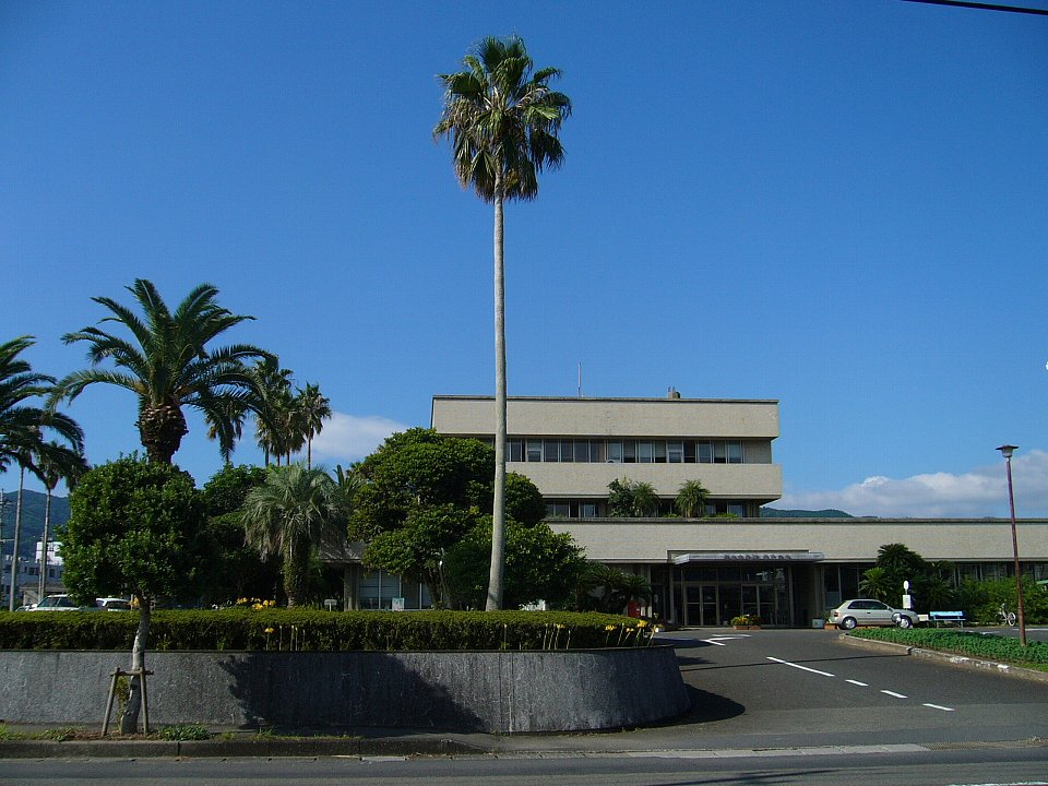 Ibusiki City Hall in Kagoshima Prefecture, Japan(指宿市市役所)